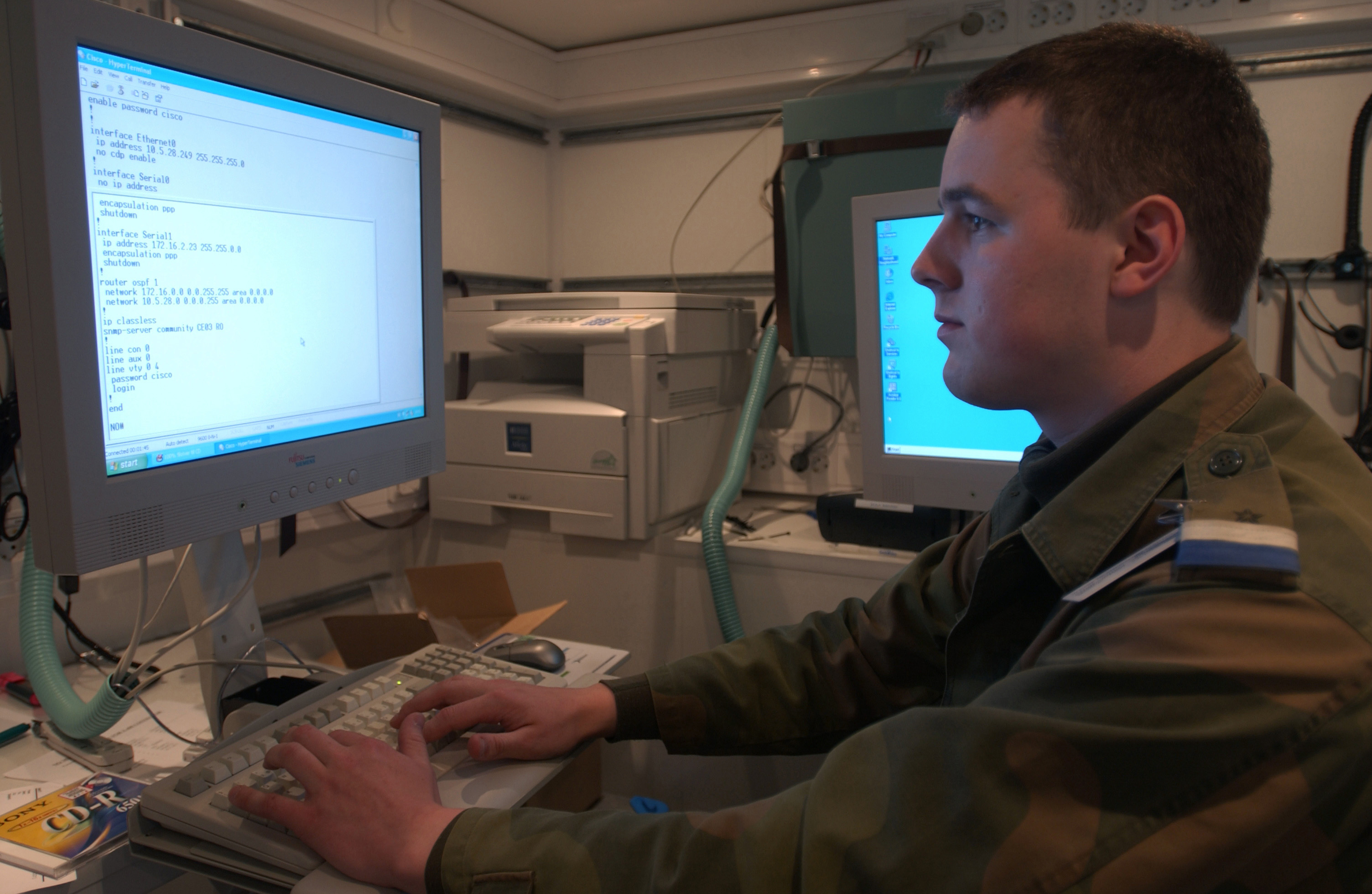 Caption: "Norwegian Army First Lieutenant (1LT) Erik Paal Bjoerke, conducts a test of the Local Area Network/Wide Area Network (LAN/WAN) SYSTEM, at Lager Aulenbach, Germany, during Exercise COMBINED ENDEAVOR 2003. The Exercise is a Partnership for Peace (PfP) exercise hosted by Germany, and is the largest INFORMATION and communications SYSTEMs exercise in the world which focuses primarily on COMMAND, CONTROL, Communications, and Computers (C4) interoperability testing and documentation.